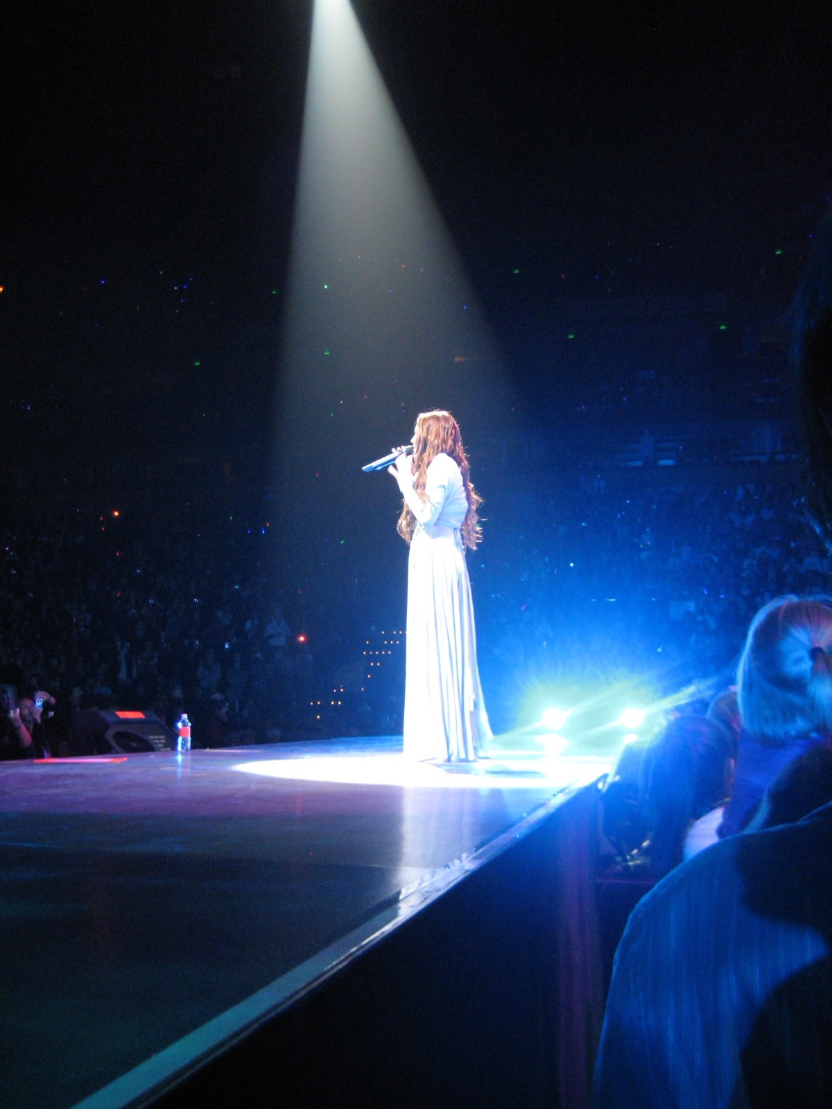 Miley Cyrus during the Wonder World Tour in Nashville, Tennessee.